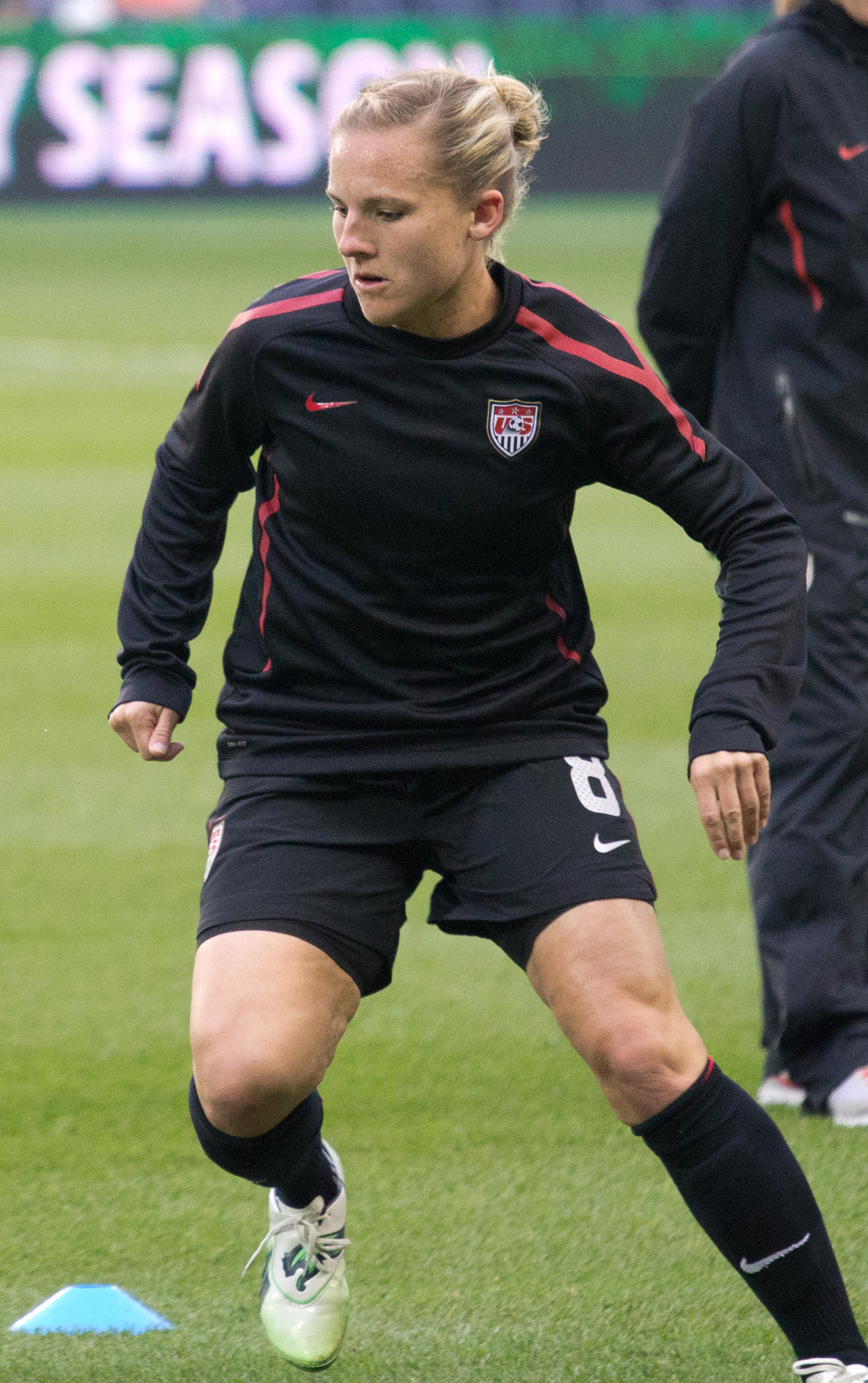 Amy Rodriguez of the United States Women's National Soccer team warming up prior to a friendly match against Canada on September 17th, 2011.